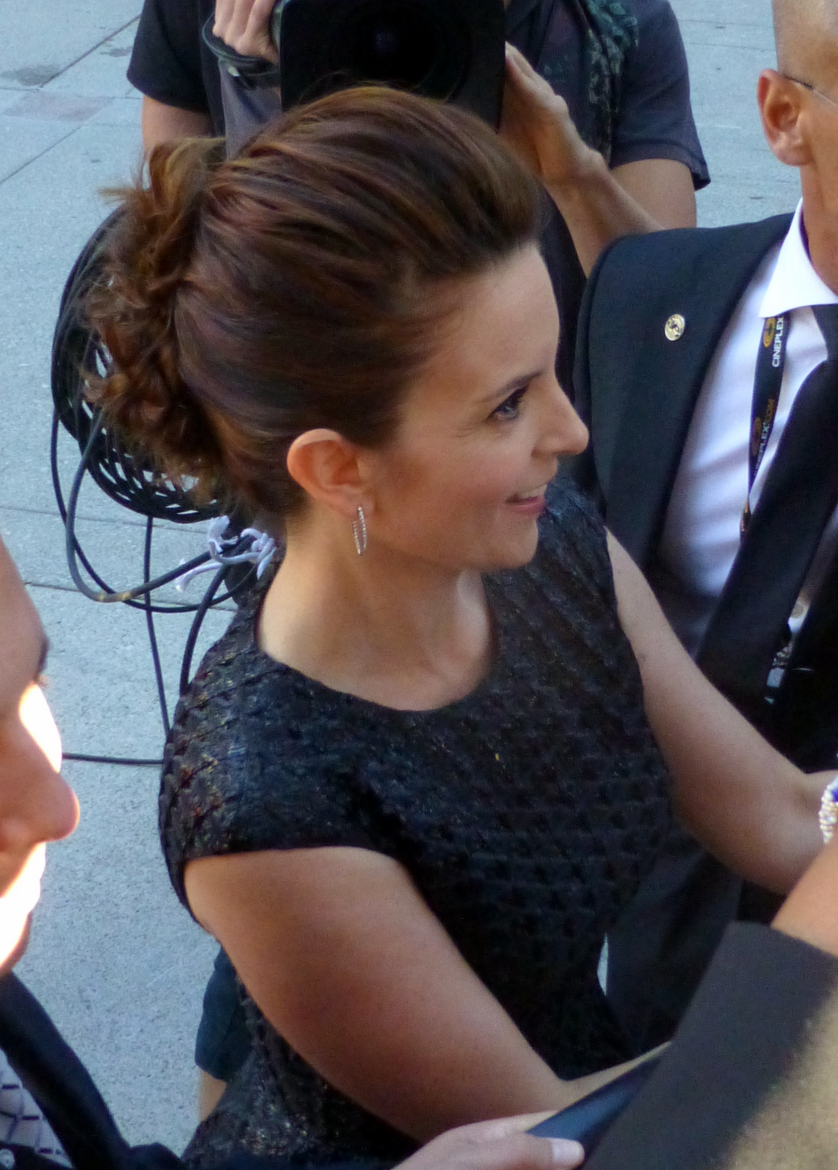 Tiny Fey at the premiere of This Is Where I Leave You, 2014 Toronto Film Festival